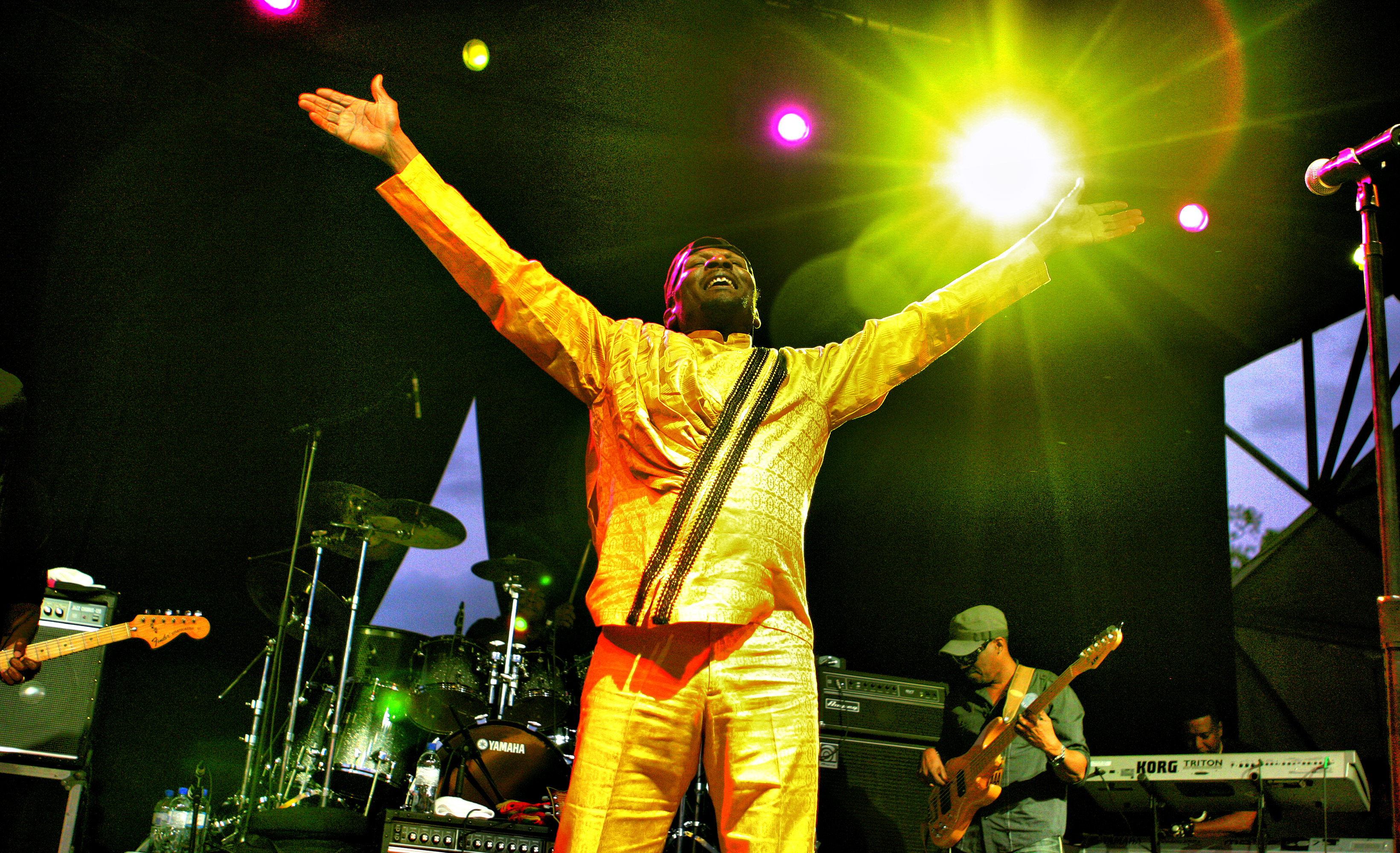 Jimmy Cliff at Raggamuffin Music Festival 2011